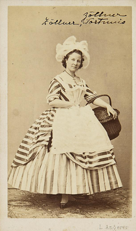 Austrian singer Emma Zöllner as Babette in Offenbach's "Fortunios Lied"